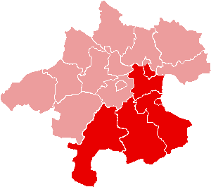 Map of the Upper Austrian quarter of Traunviertel